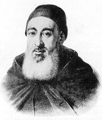 Mkhitar Sebastatsi (1676 - 1749), founder of the Mkhitarian Order